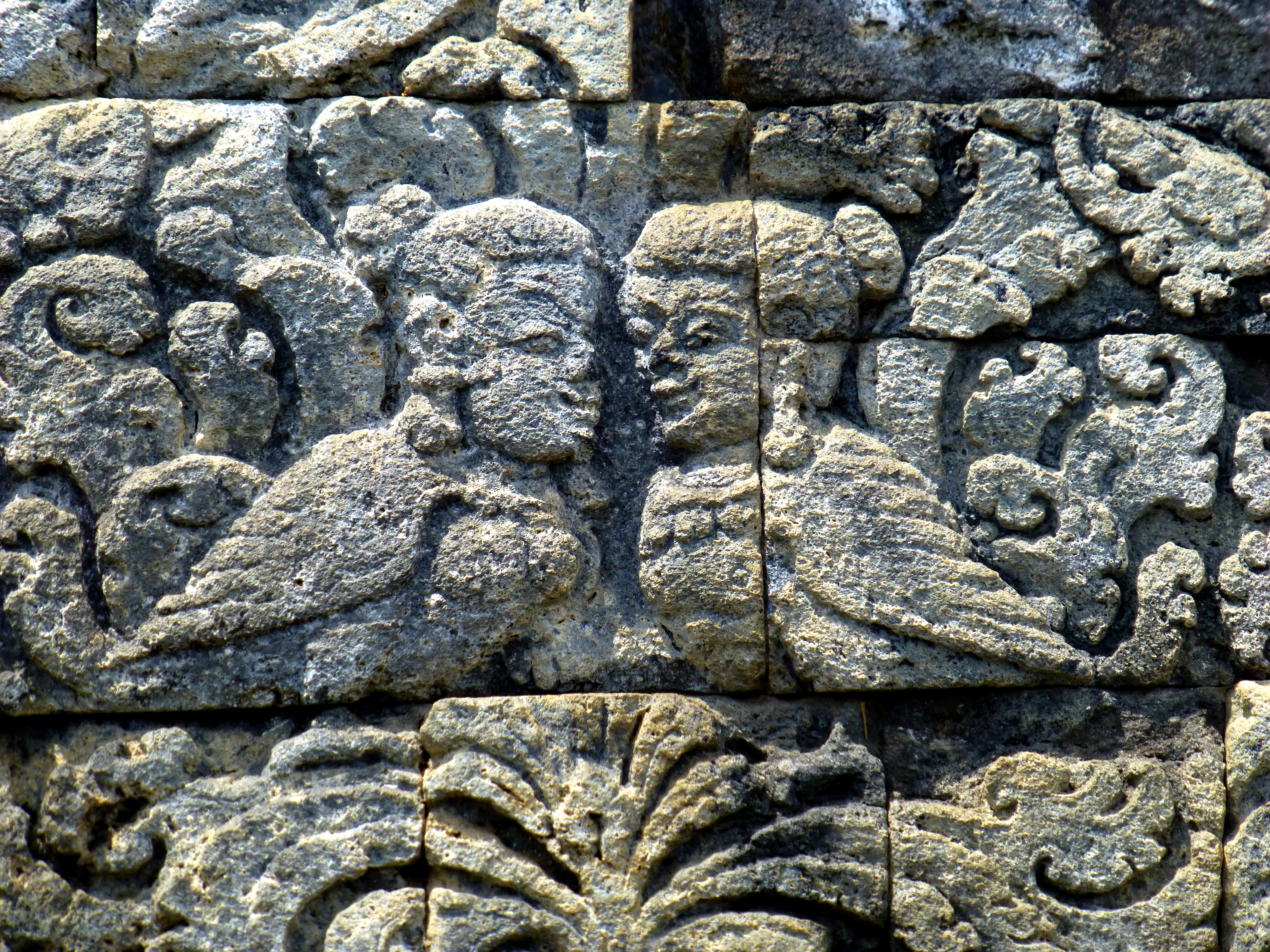 008 Kinnaras at Pringapus Village, Central Java Photograph from Candi Pringapus, a temple dedicated to the Hindu deity, Shiva, in Java, Indonesia taken by Anandajoti.